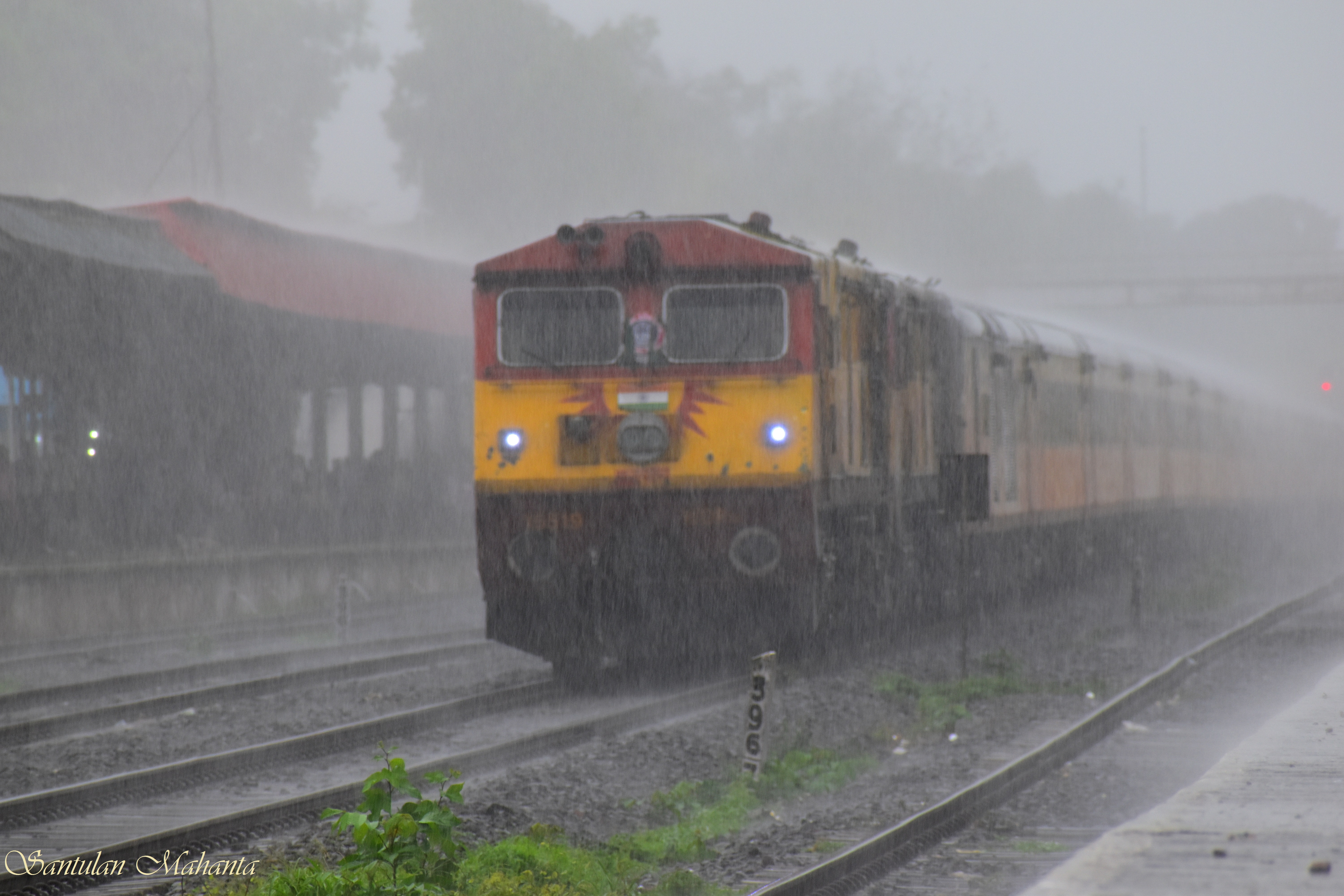 ALCo WDP3A (ALCo RSD29 variant DL560C uprated version) twin led Tejas Express enjoying monsoon drizzle.